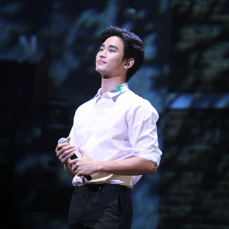 Kim Soo-hyun at the Japanese fanmeeting in Yokohama, 18 May 2014